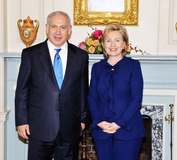 Binyamin Netanyahu, Israel's Prime Minister, meeting Secretary Clinton for a working dinner in Washington DC, May 18, 2009